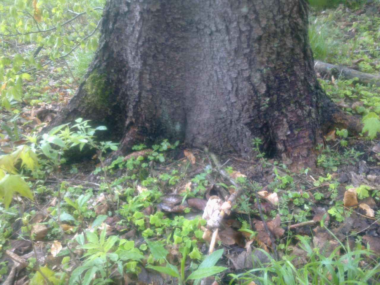 Buttress roots of a spruce